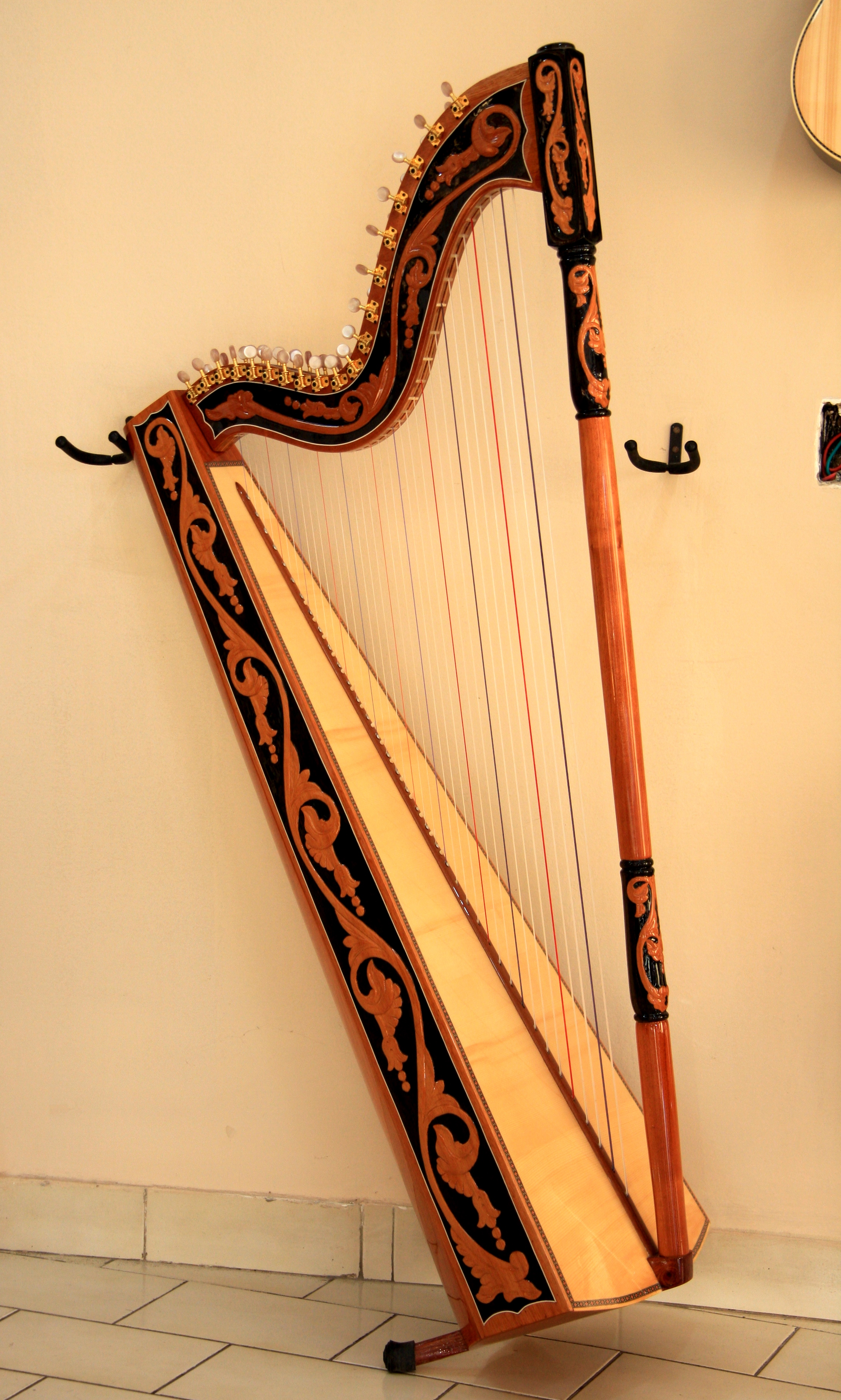 Paraguayan harp in a shop in Asuncion, Paraguay.